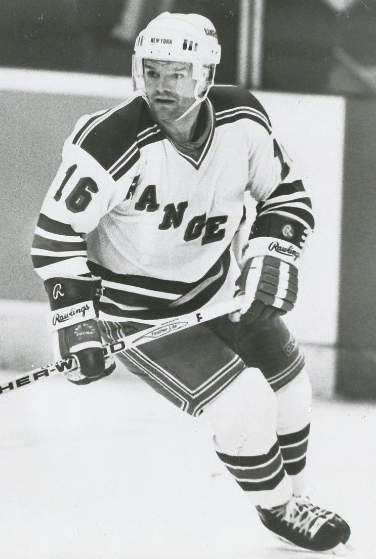 Marcel Dionne playing for the New York Rangers in 1987